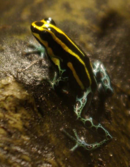 Ranitomeya ventrimaculata (syn.: Dendrobates ventrimaculatus), 2008 frog exhibit at National Geographic Museum, Washington, DC